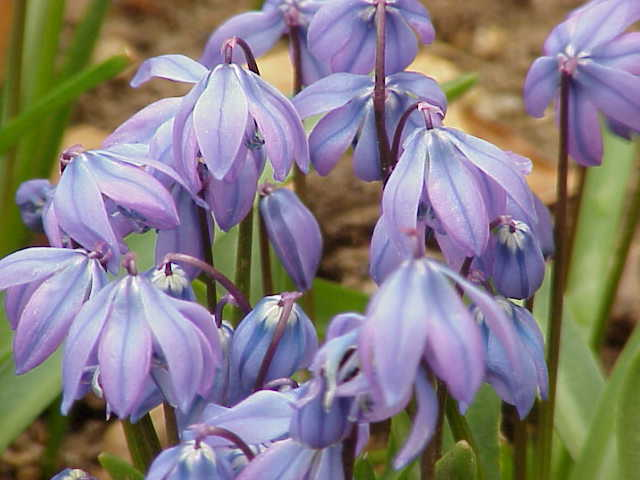 Species: Scilla siberica Family: Hyacinthaceae Image No. 1